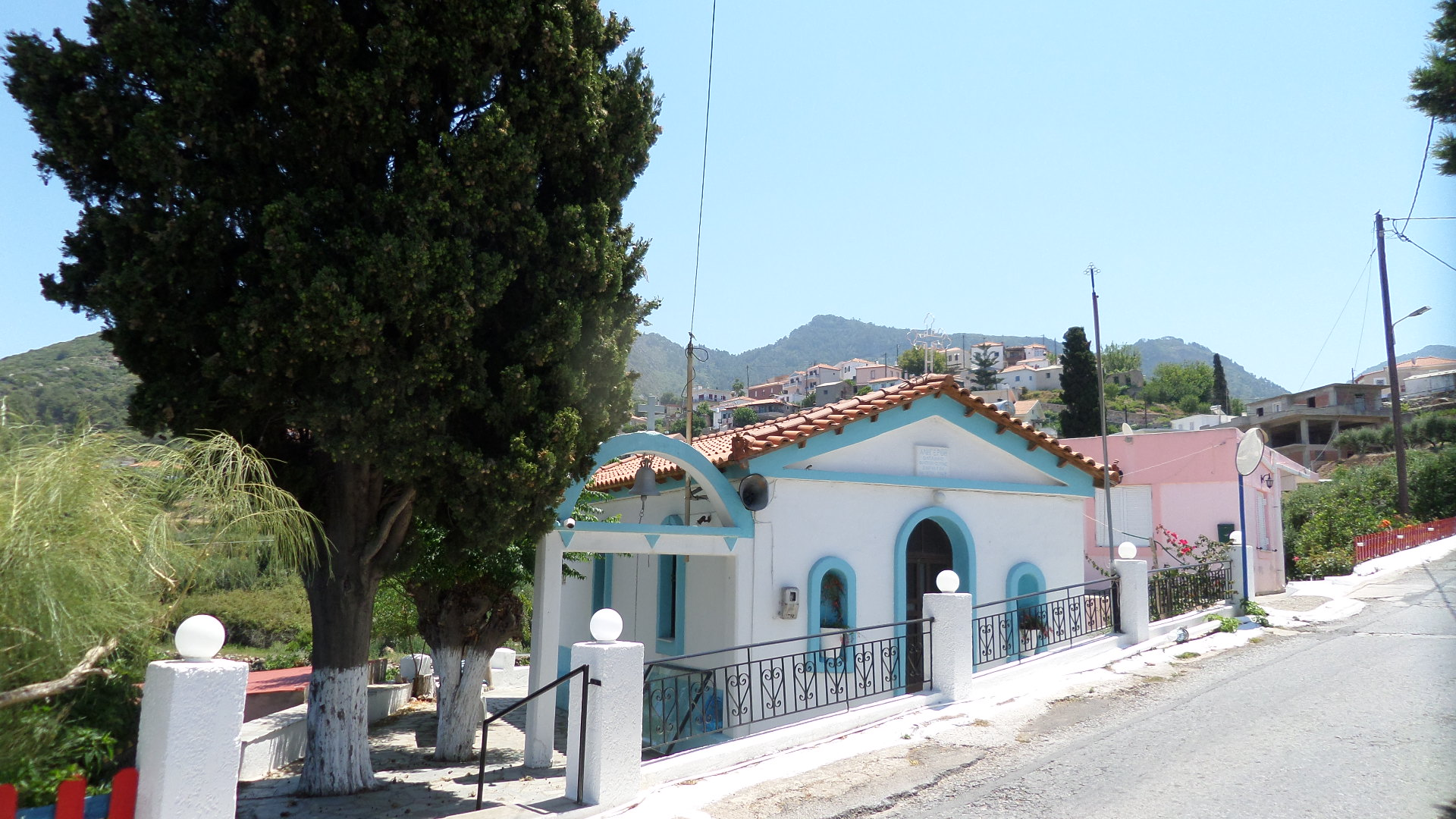 A chapel